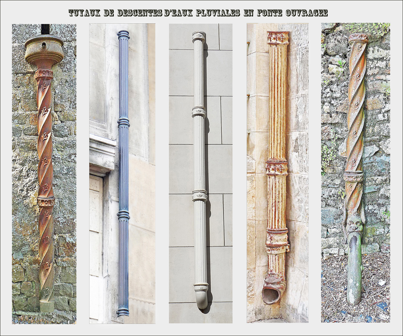 Downspouts ornate cast iron.